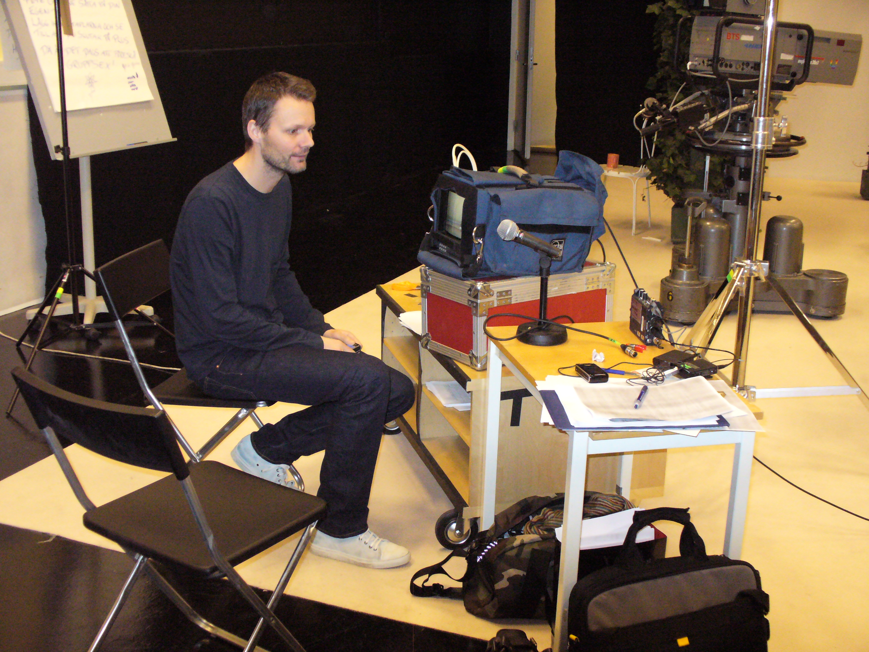 Felix Herngren working as a director of Sverige dansar och ler.